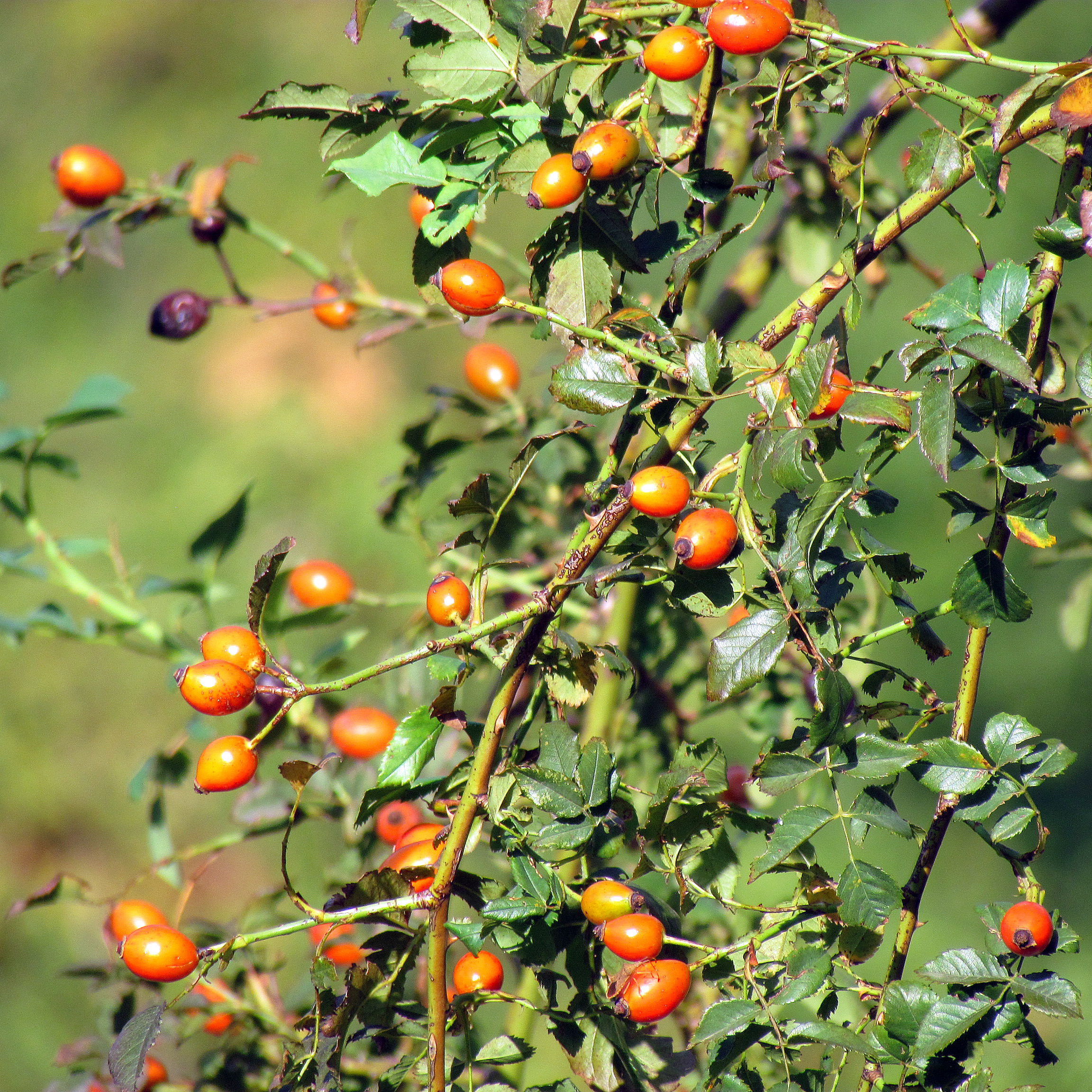 Rosa canina hips, Đerdap